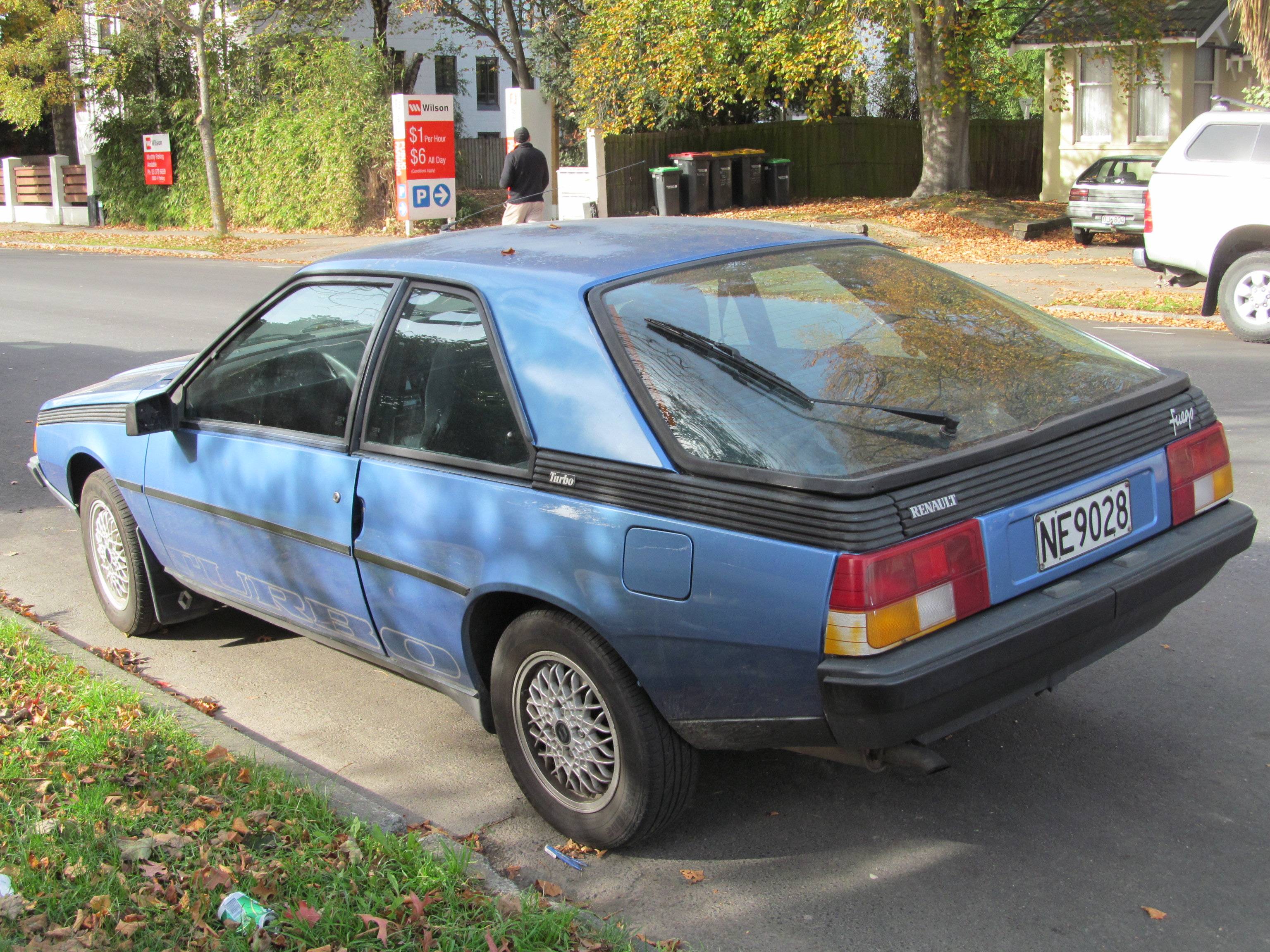 NE9028 This is a very late Fuego, and the only one I've seen on a white plate. I still think these look absolutely superb, even after 30 years.